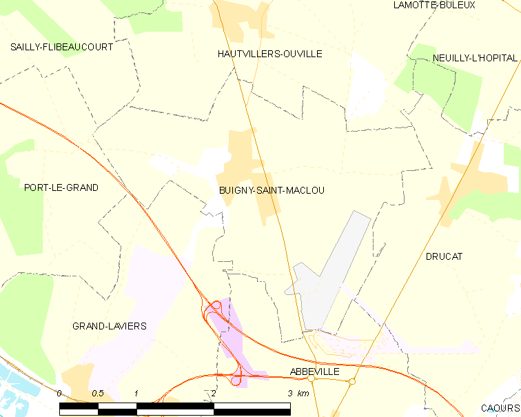 Map of French municipality Buigny-Saint-Maclou